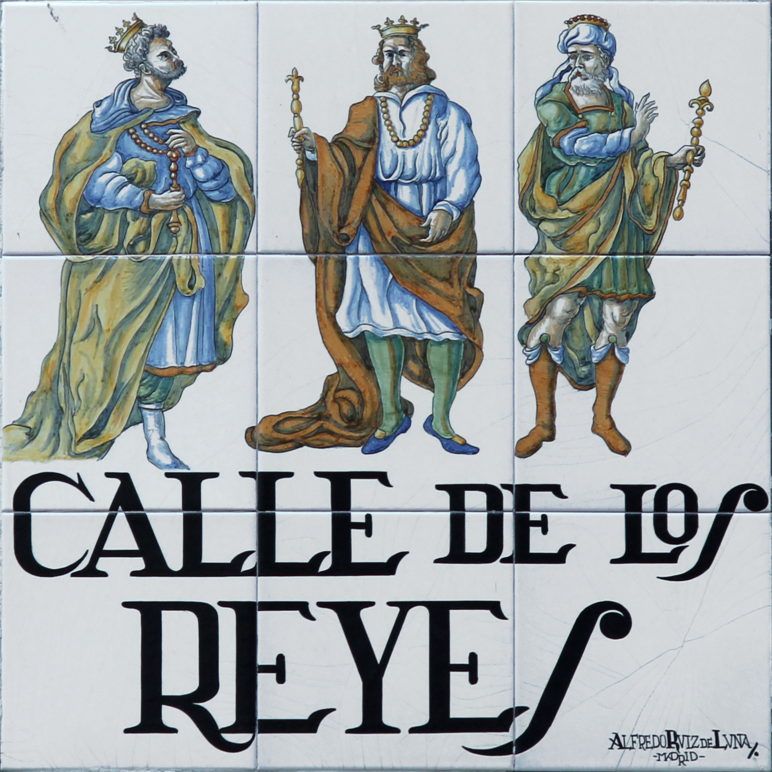 Sign of Calle de los Reyes (street) in Madrid (Spain).